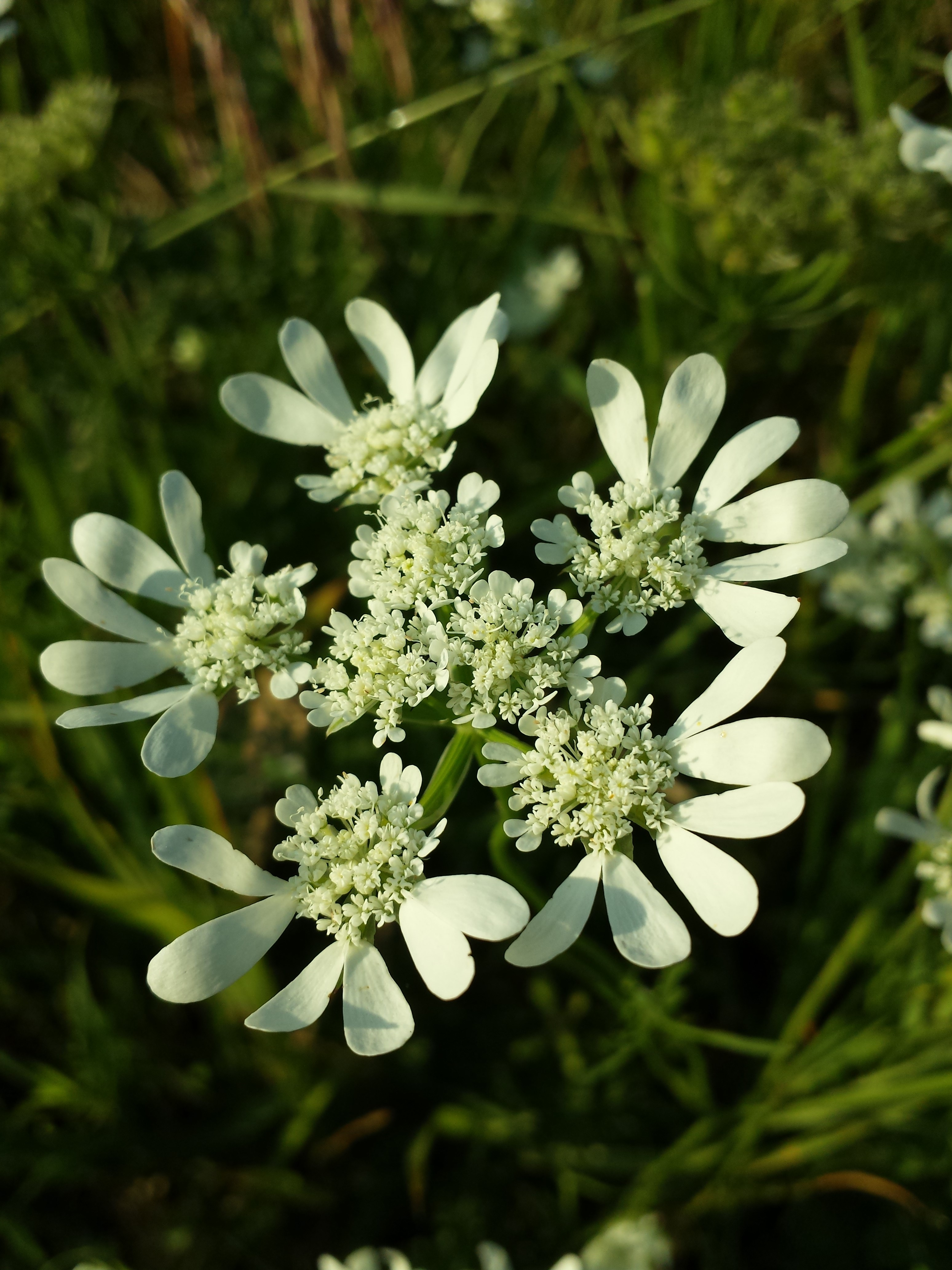 Umbel Taxonym: Orlaya grandiflora ss Fischer et al. EfÖLS 2008 ISBN 978-3-85474-187-9 Location: Neue Donau, district Korneuburg, Lower Austria - ca. 160 m a.s.l. Habitat: dry slope